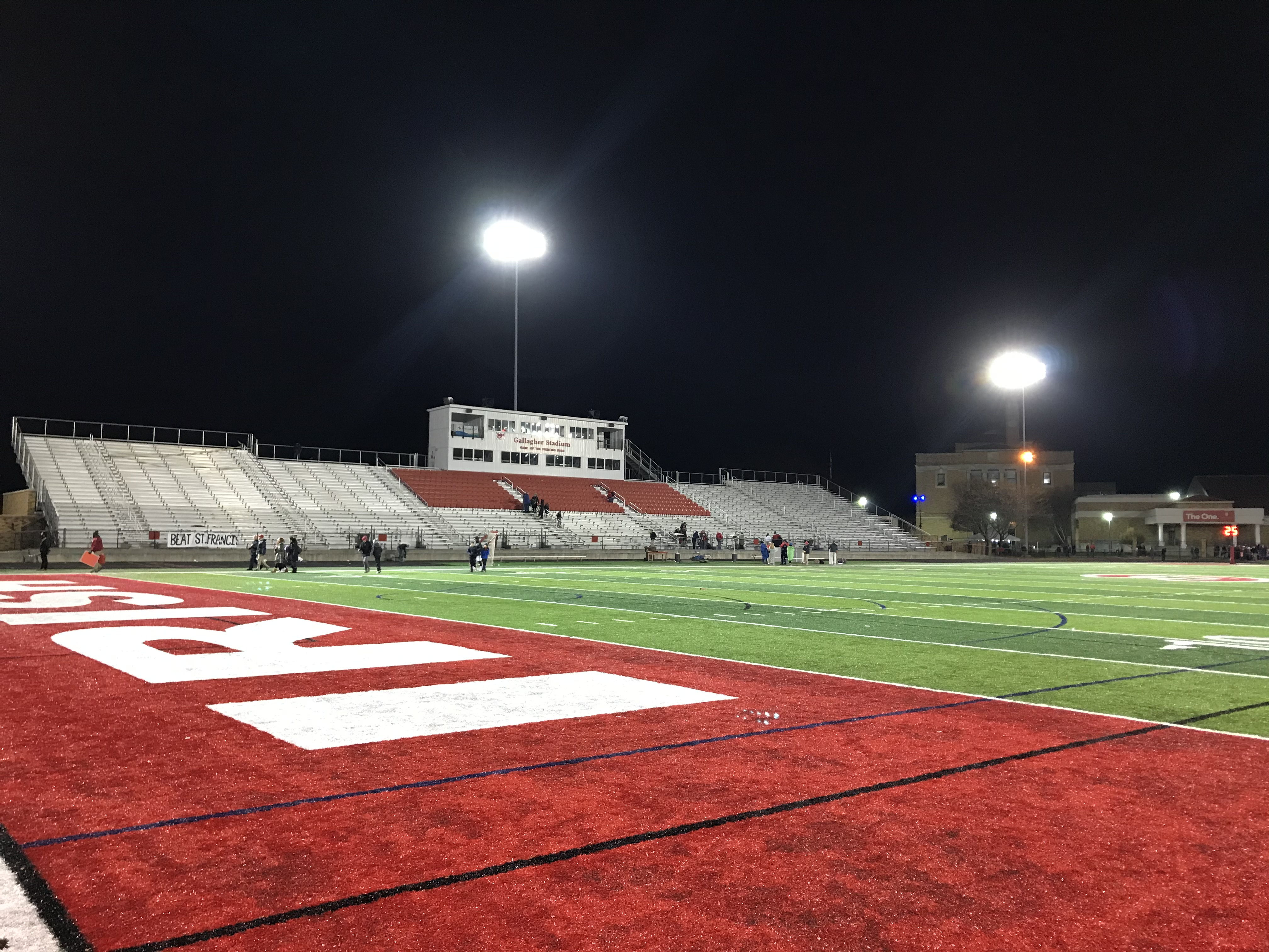 Gallagher Stadium post game on senior night.